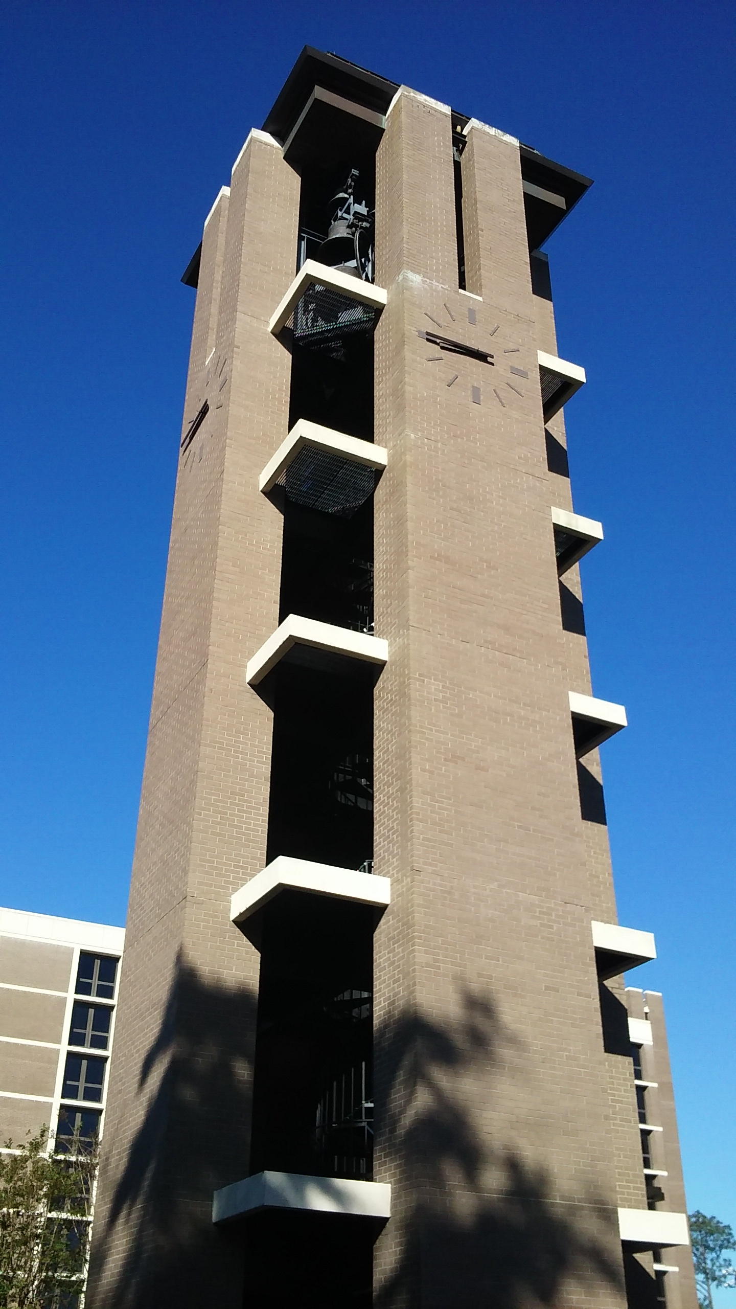 The bell tower at Pensacola Christian College. Image taken in 2017 during College Days.